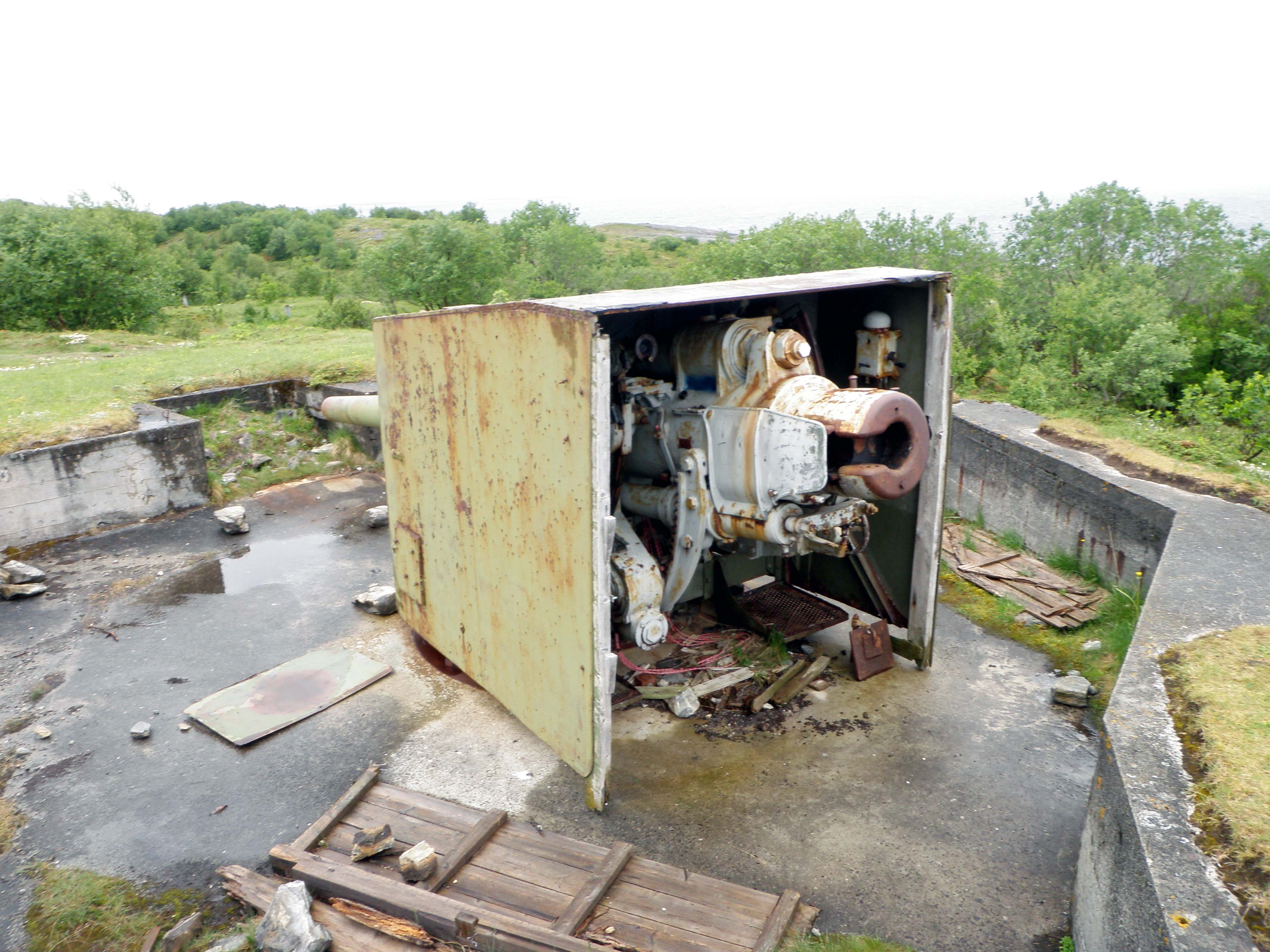 Rear view of a 15 cm SK L/45 coastal artillery gun at Nordarnøy in Gildeskål, Norway.